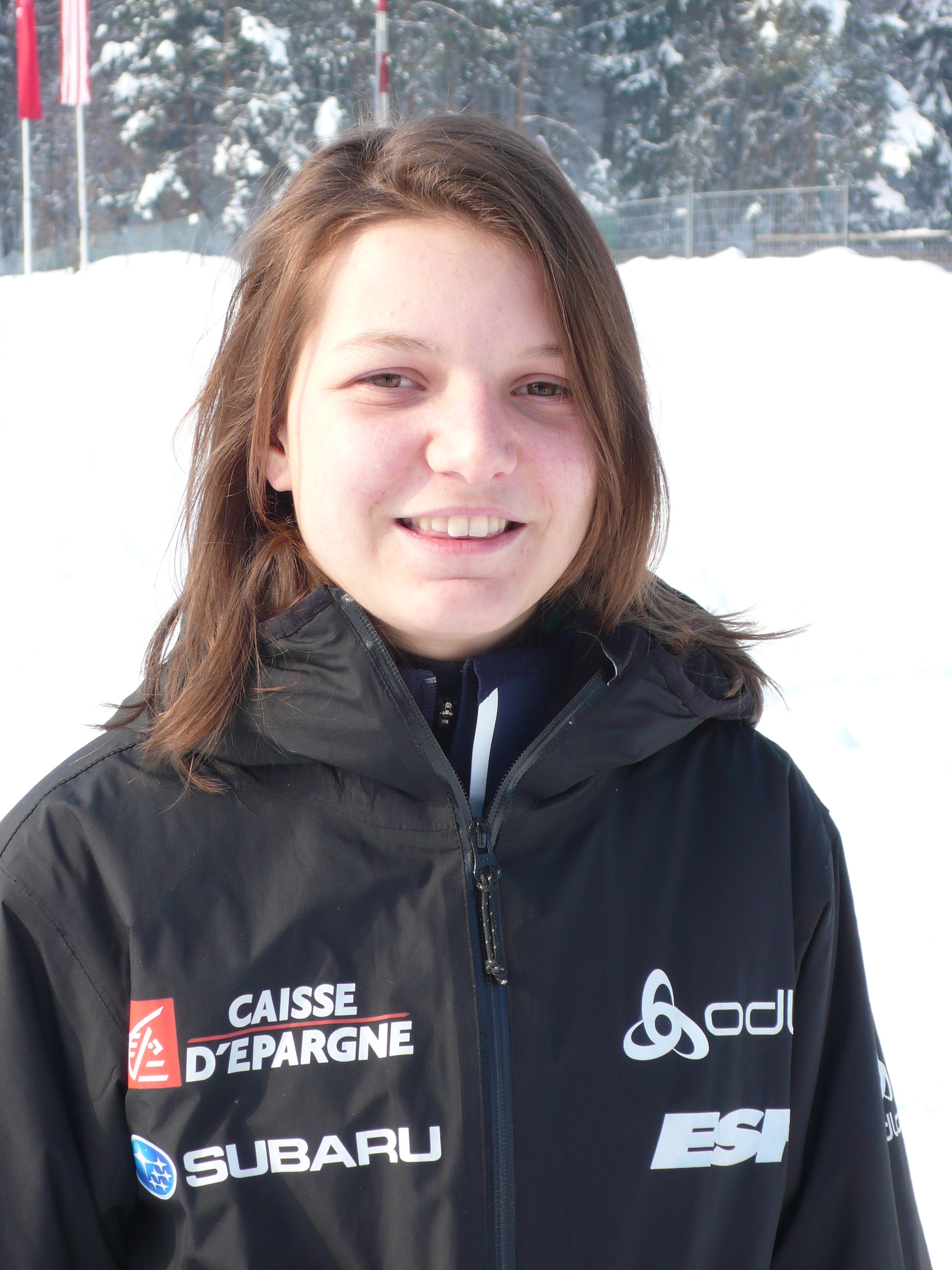 Julia Clair